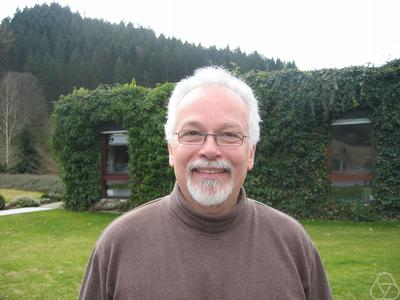 Hugh L. Montgomery at Workshop: Analytic Number Theory in Oberwolfach, 2008